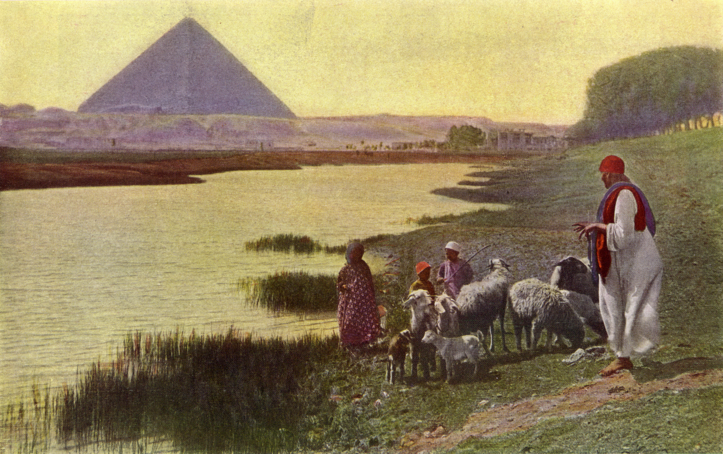 THE LURE OF MOTHER EGYPT. In addition to the romance and mystery of Egypt's mighty past, expressed on every hand by her crumbling monuments and age-old customs, there is the elusive charm of the East and the soft coloring in pastel shades at eventide which give to the Occidental visitor a never-to-be-forgotten impression of the Land of the Nile.